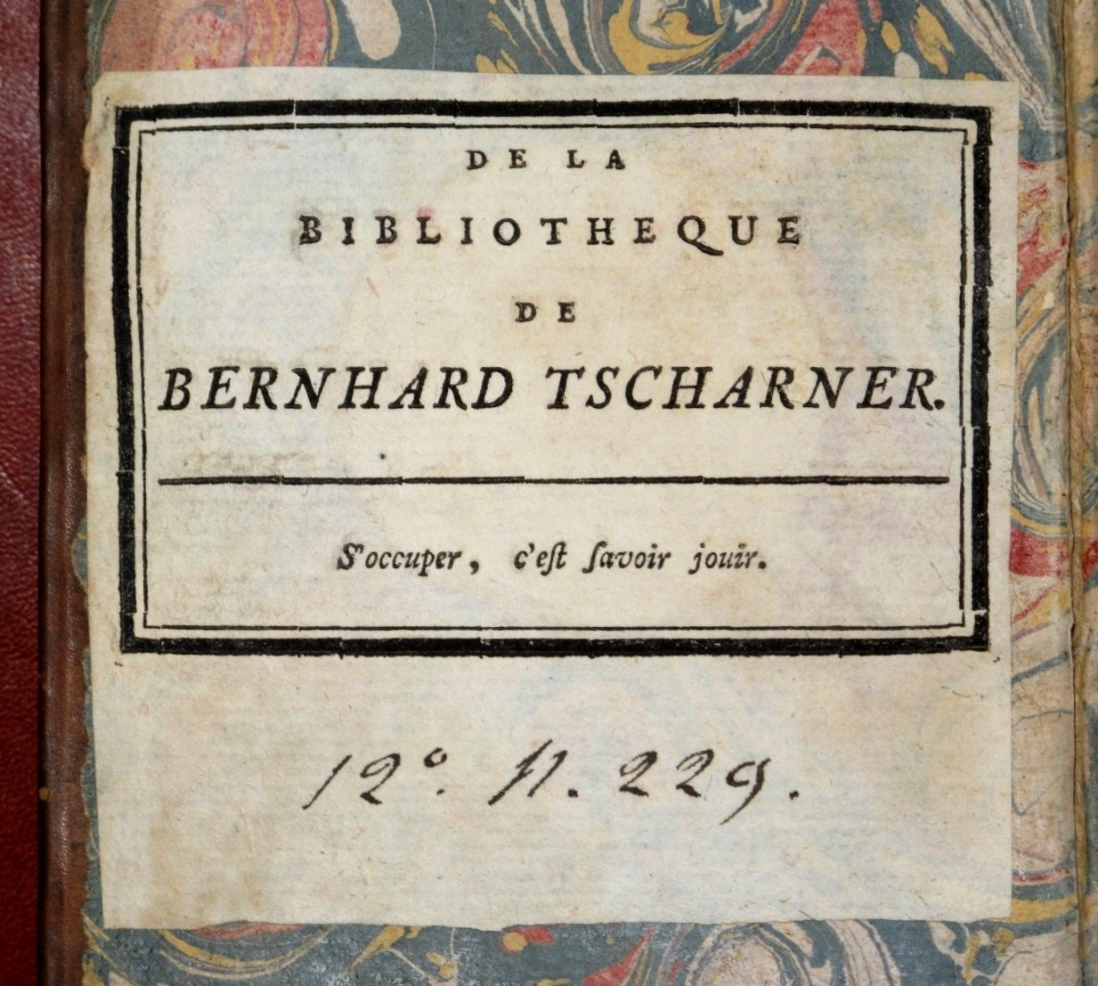 Exlibris Vincenz Bernhard Tscharner, ca. 1760.